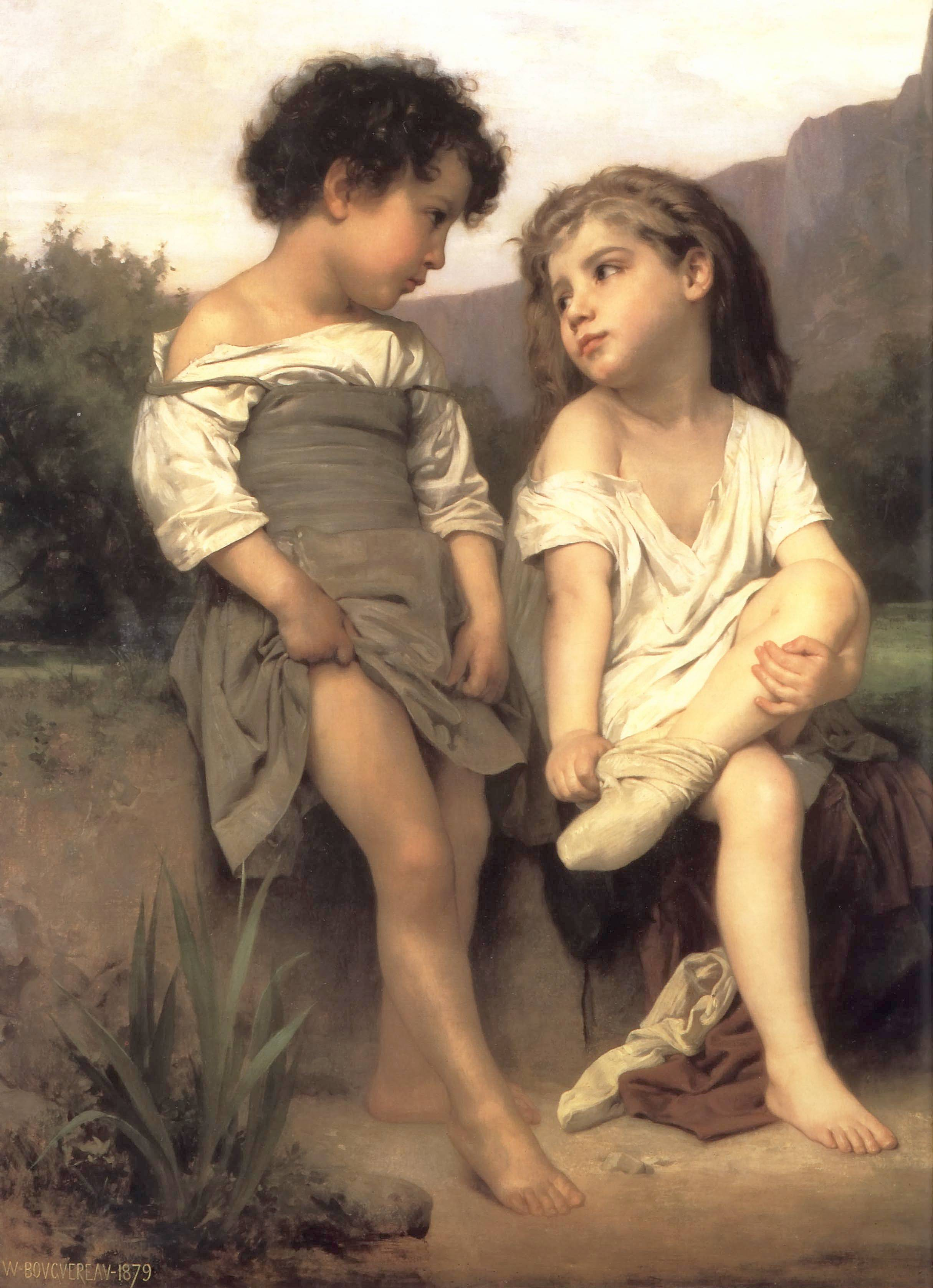 At the Edge of the Brook